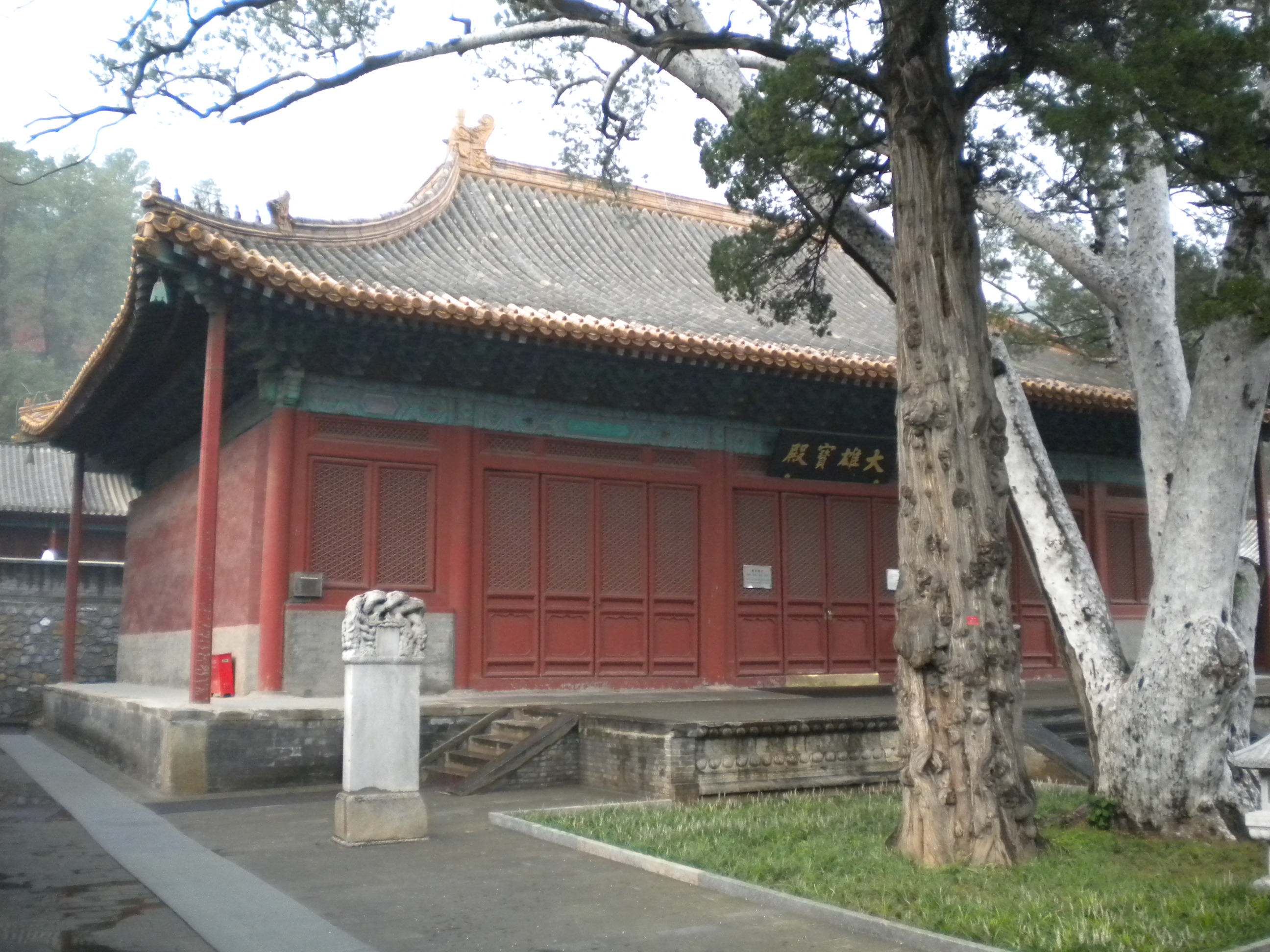 Fahai Temple-the Hall of Mahavira